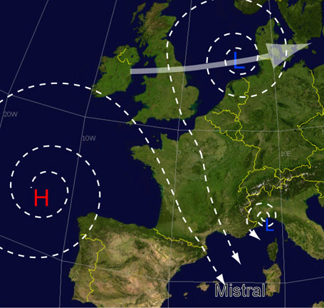 Schematic diagram of mistral wind occurence in Europe by Piotr Flatau. The background was generated using (open source) NASA WorldWind program Official website and Adobe Photoshop and Adobe Illustrator was used to add other elements. Pflatau 21:00, 3 March 2006 (UTC)